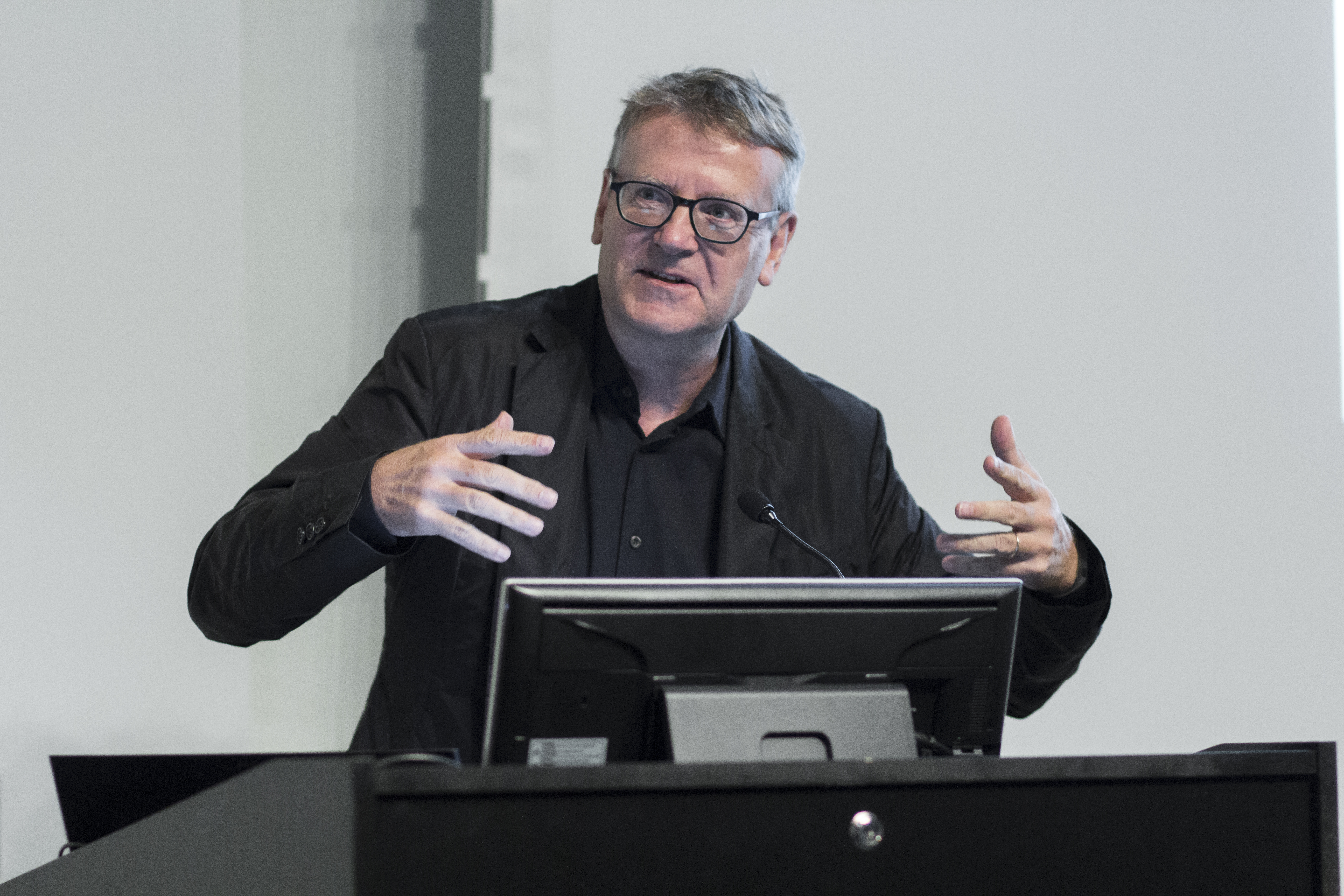 Information Fall-Out: Buckminster Fuller’s World Game Exhibition Opening and Symposium Friday, September 18, 2015 Symposium with Eva Díaz, Medard Gabel, James Graham, Ed Hauben, Laura Kurgan, Yates McKee, Robert Gerard Pietrusko, Shoji Sadao, Felicity Scott, Mark Wasiuta, Mark Wigley, and Gene Youngblood Wood Auditorium, Columbia University 2:00 PM Opening and Reception Arthur Ross Architecture Gallery Buell Hall, Columbia University 7:00 PM GSAPP Exhibitions presents Information Fall-Out: Buckminster Fuller’s World Game, an exhibition and symposium at Columbia University’s Graduate School of Architecture Planning and Preservation. Arthur Ross Architecture Gallery, Buell Hall, GSAPP, Columbia University